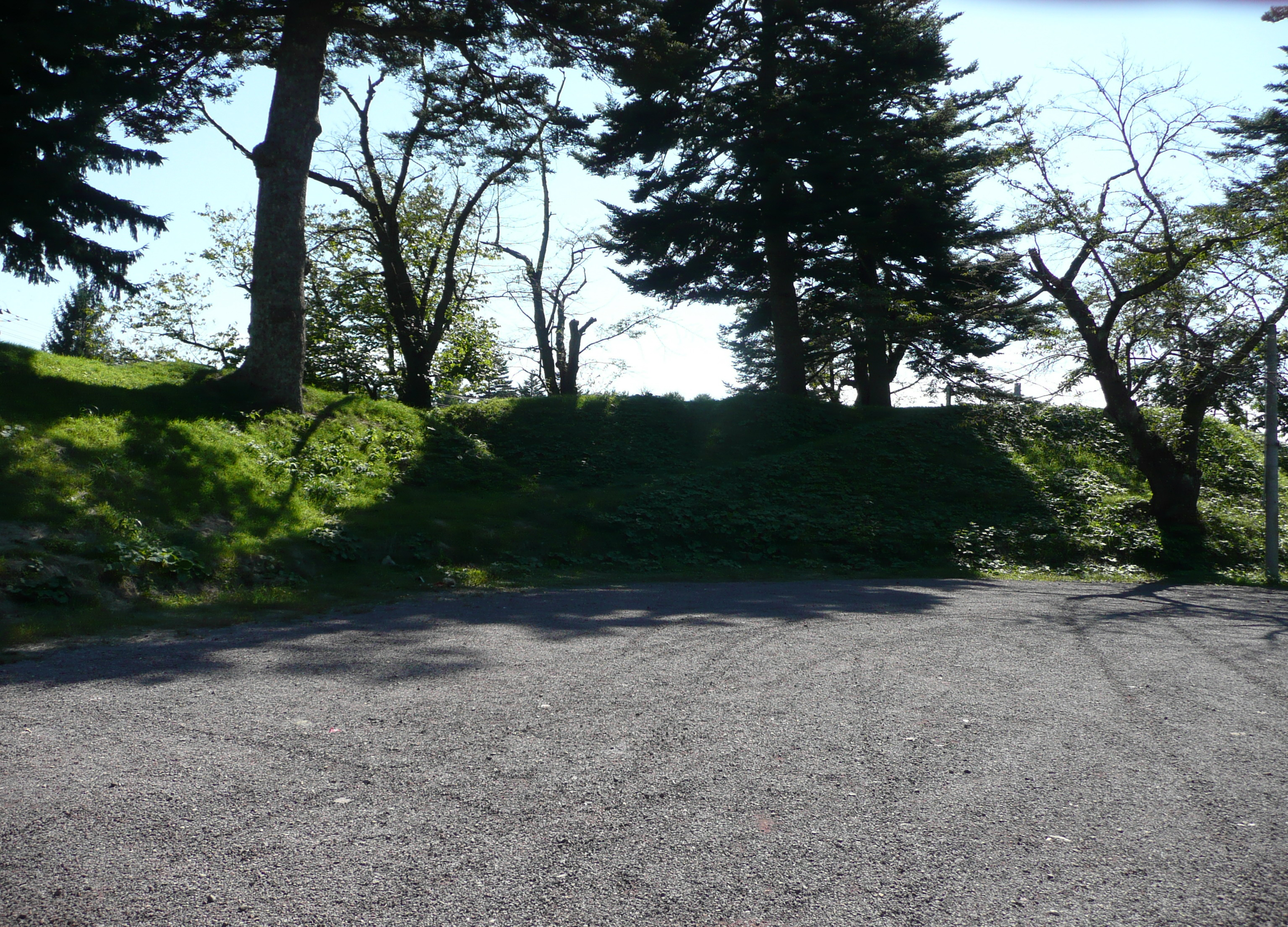 土塁上にある武器櫓跡